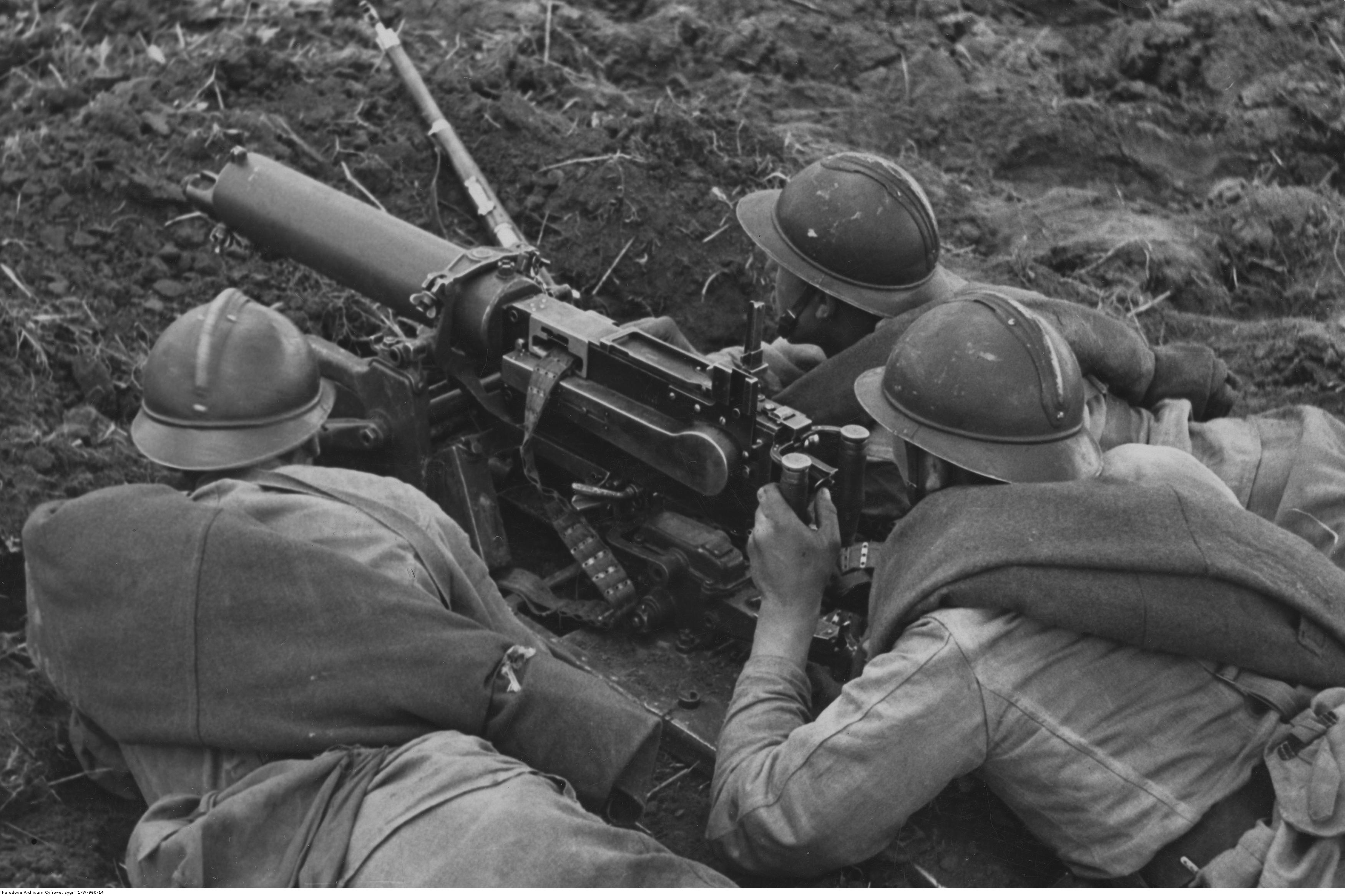 Polish wz.08 Maxim HMG during manouvres.